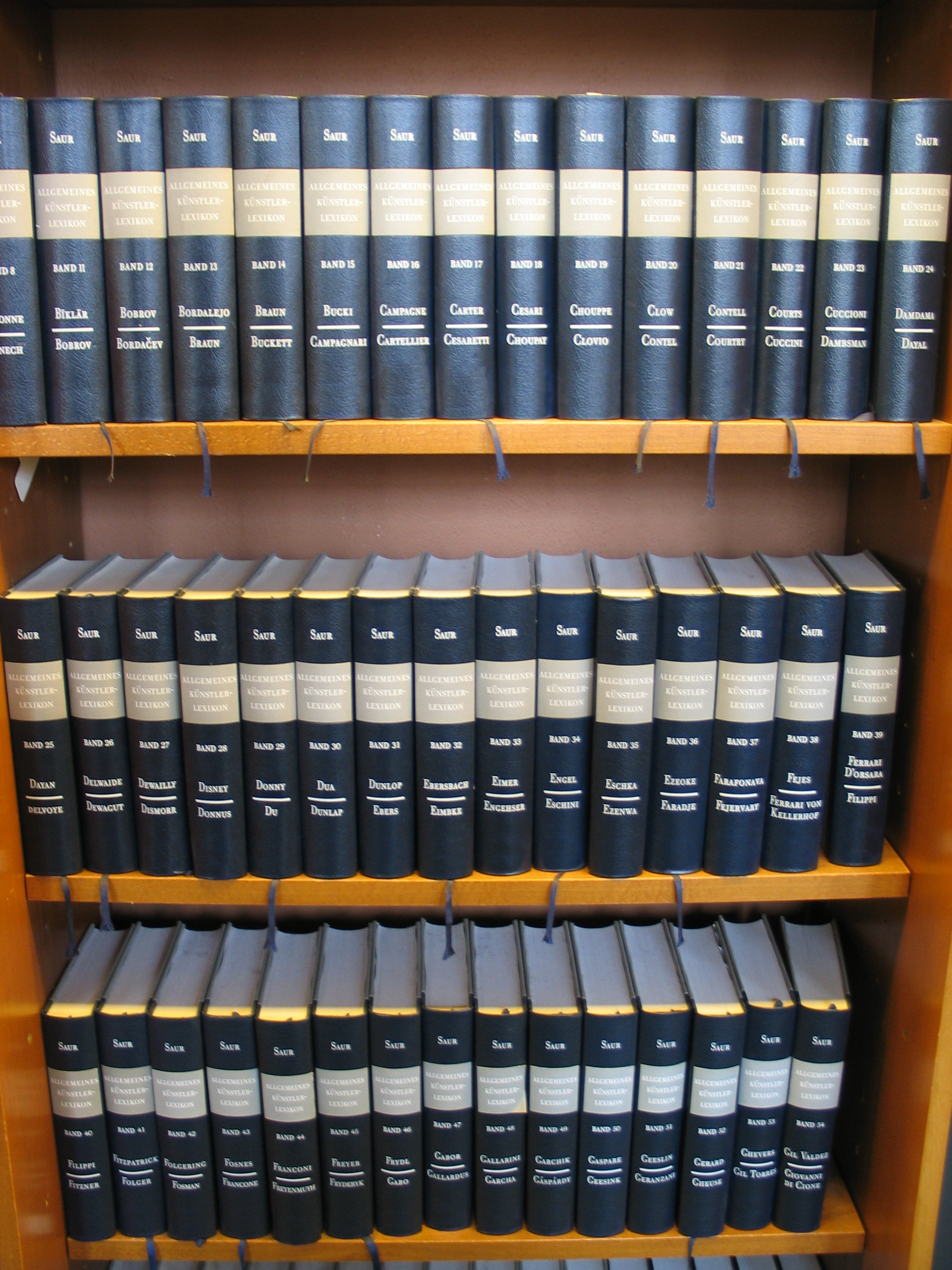 Allgemeines Künstlerlexikon. Die bildenden Künstler aller Zeiten und Völker. München 1992